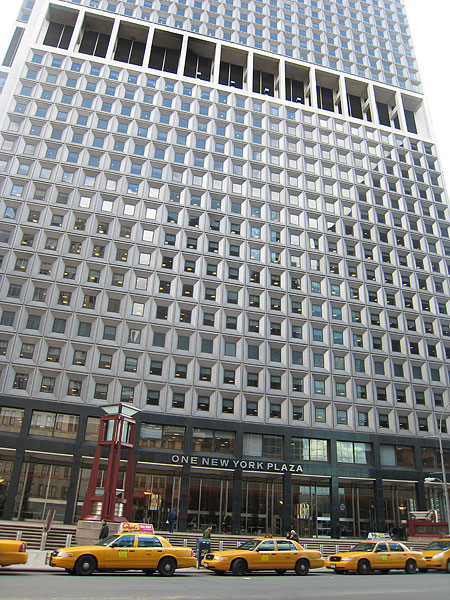 Picture taken by Yongbo Jiang, April 5, 2007.